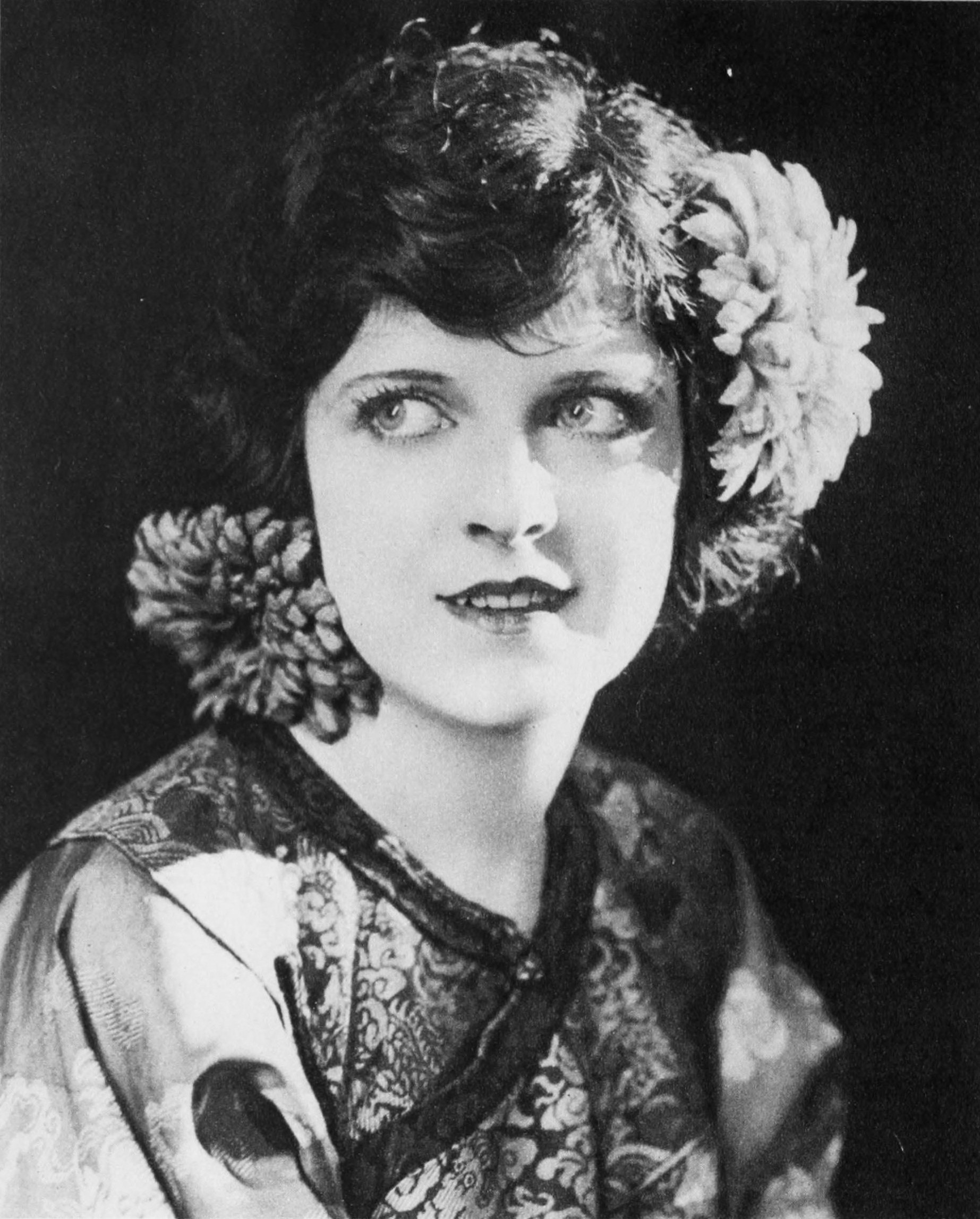 Publicity photo of May McAvoy from Stars of the Photoplay. May McAvoy attended normal school where she was expected to train to become a teacher, but accounts of the fascinating life of a motion picture star tempted her to abandon school for the screen. For three years she played small parts. Offered a role in "Sentimental Tommy," by Paramount, which was immediately followed by stardom with Realart. She appeared in "Her Reputation," "West of the Water Tower" and "The Enchanted Cottage." Born in New York City in 1901, four feet, eleven inches in height, and weighs but 94 pounds. Has dark hair and blue eyes. Unmarried.